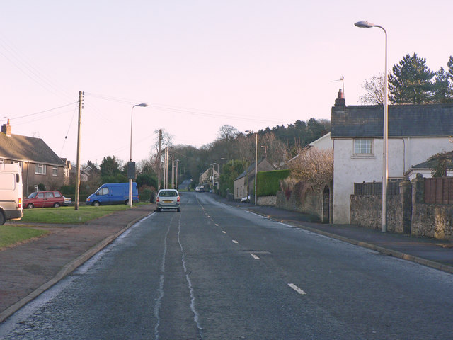 Wick Road, Ewenny